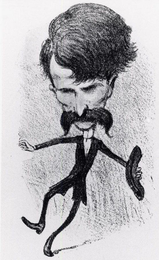 Caricature of the composer Alfredo Catalani celebrating the success of his opera Loreley. It was published in the Turin-based journal Il Pasquino in 1890.